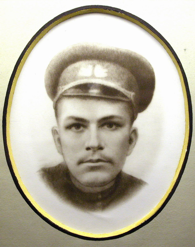 Photo of belarusian writer Maxim Bagdanovich